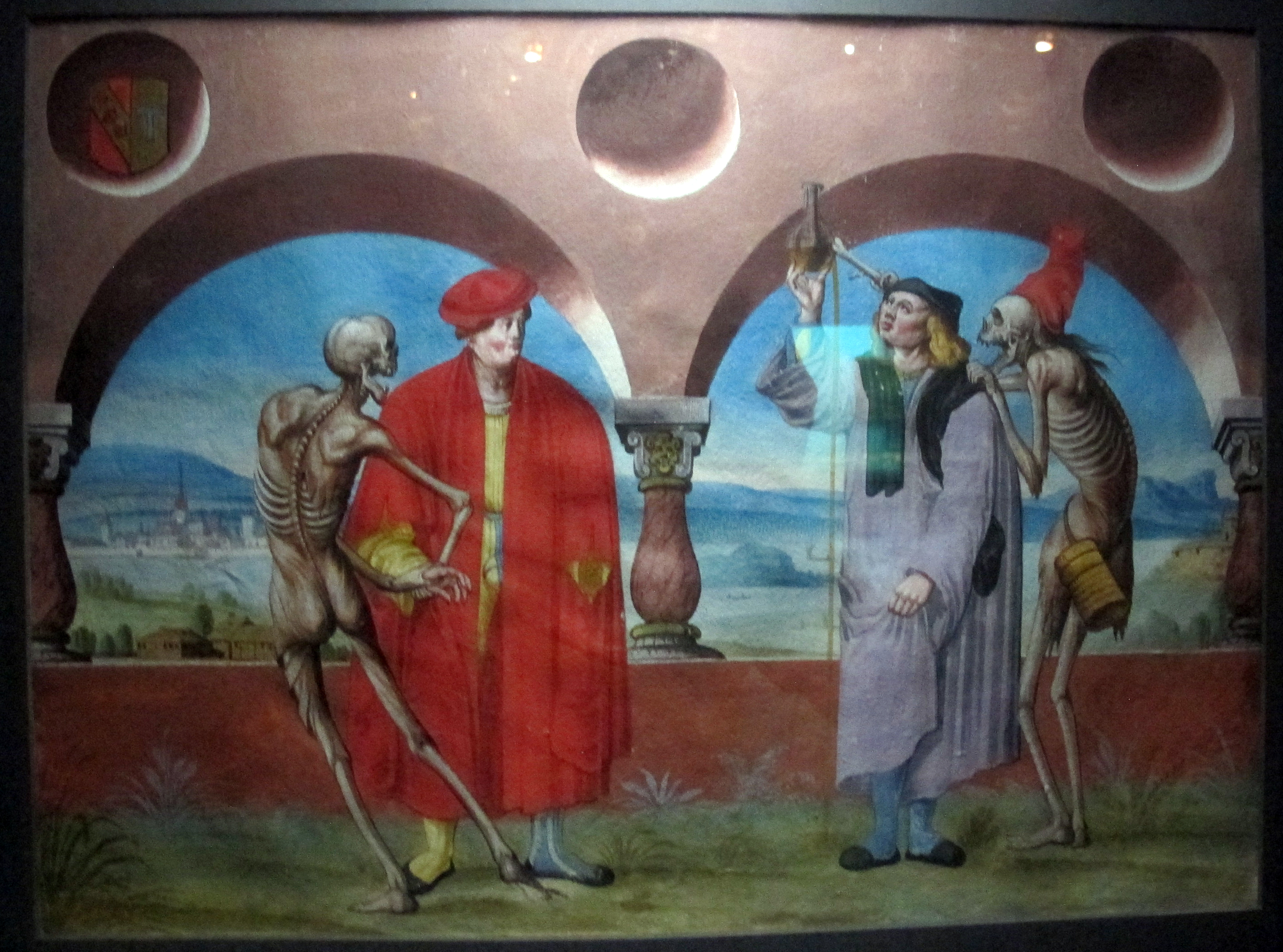 Copy of the Danse Macabre of the Dominican cemetery of Bern